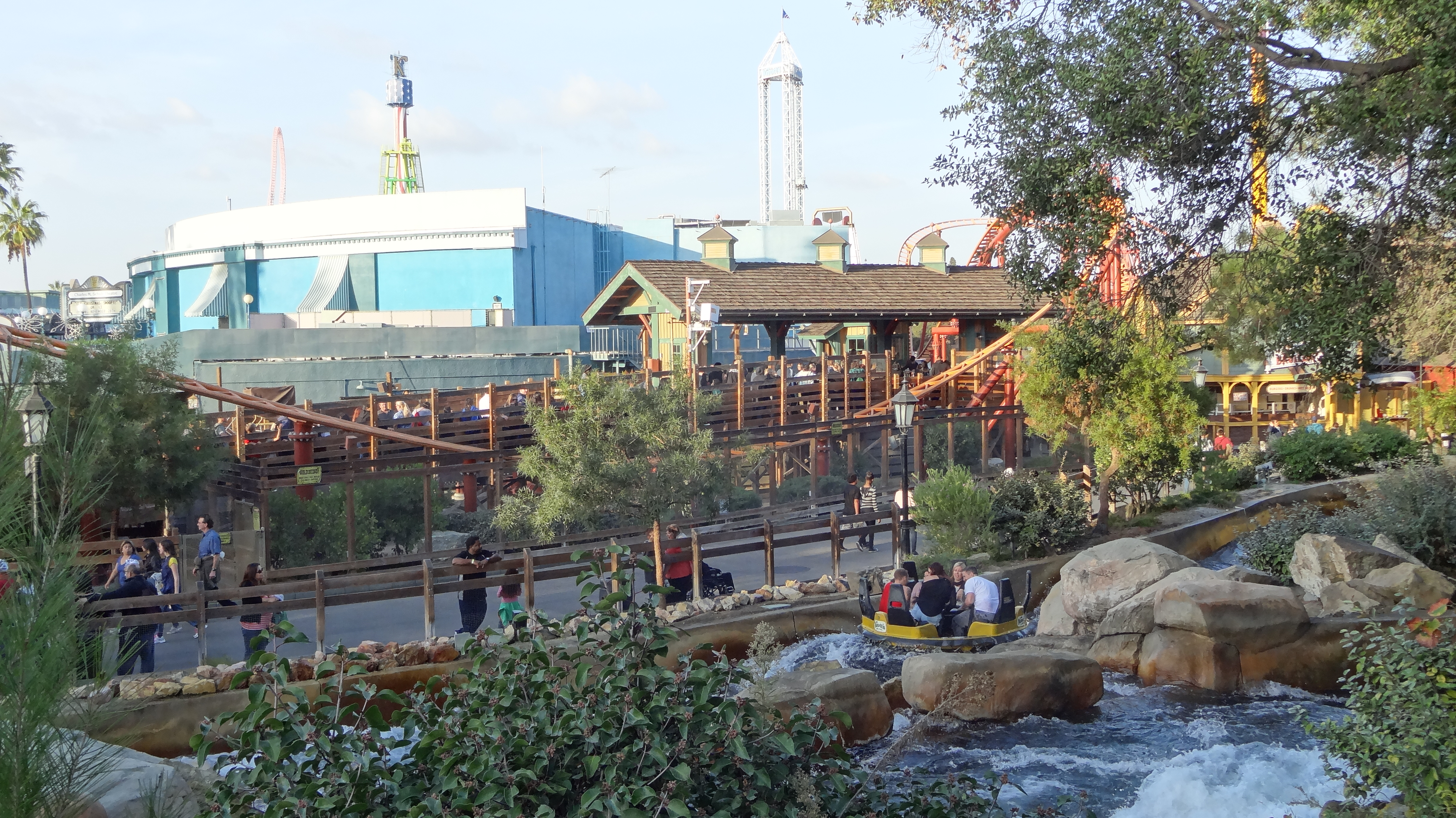 Big Foot Rapids is located in the Wild Wilderness section of the park.